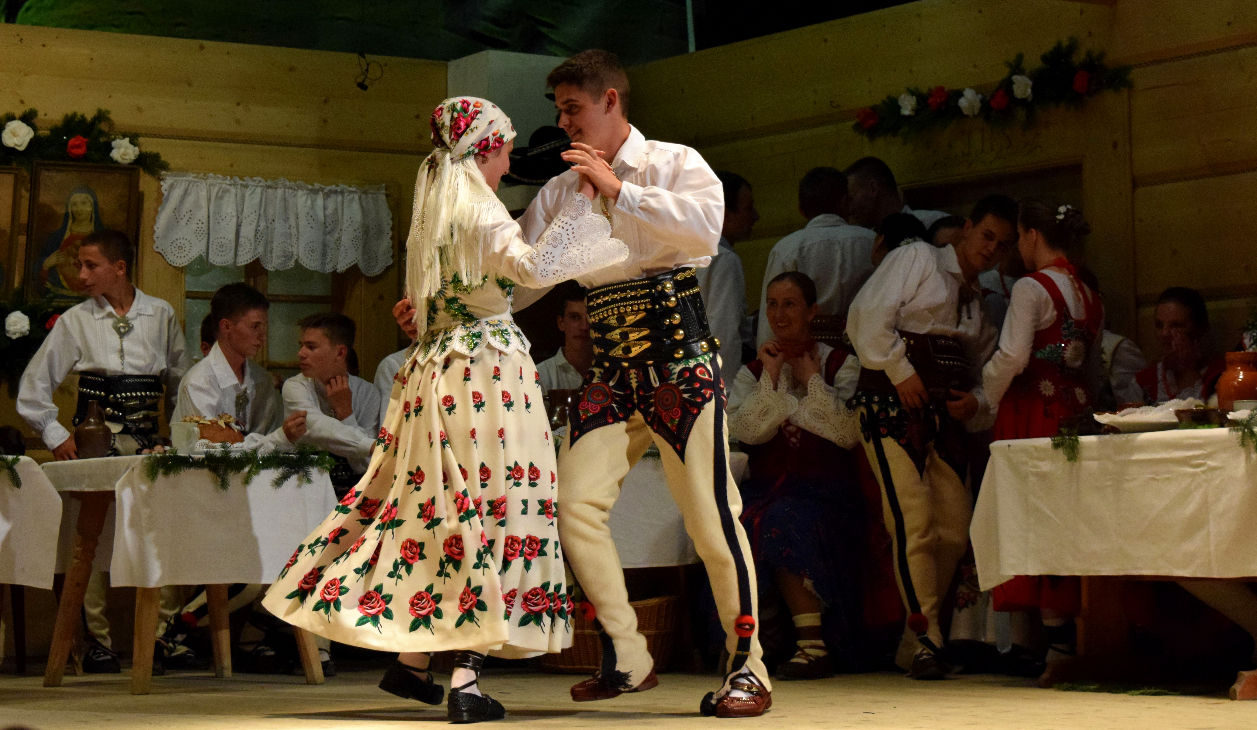 Highlanders' Wedding - folk performance in Podhale costume at Dom Ludowy Theatre, Bukowina Tatrzańska, 2016